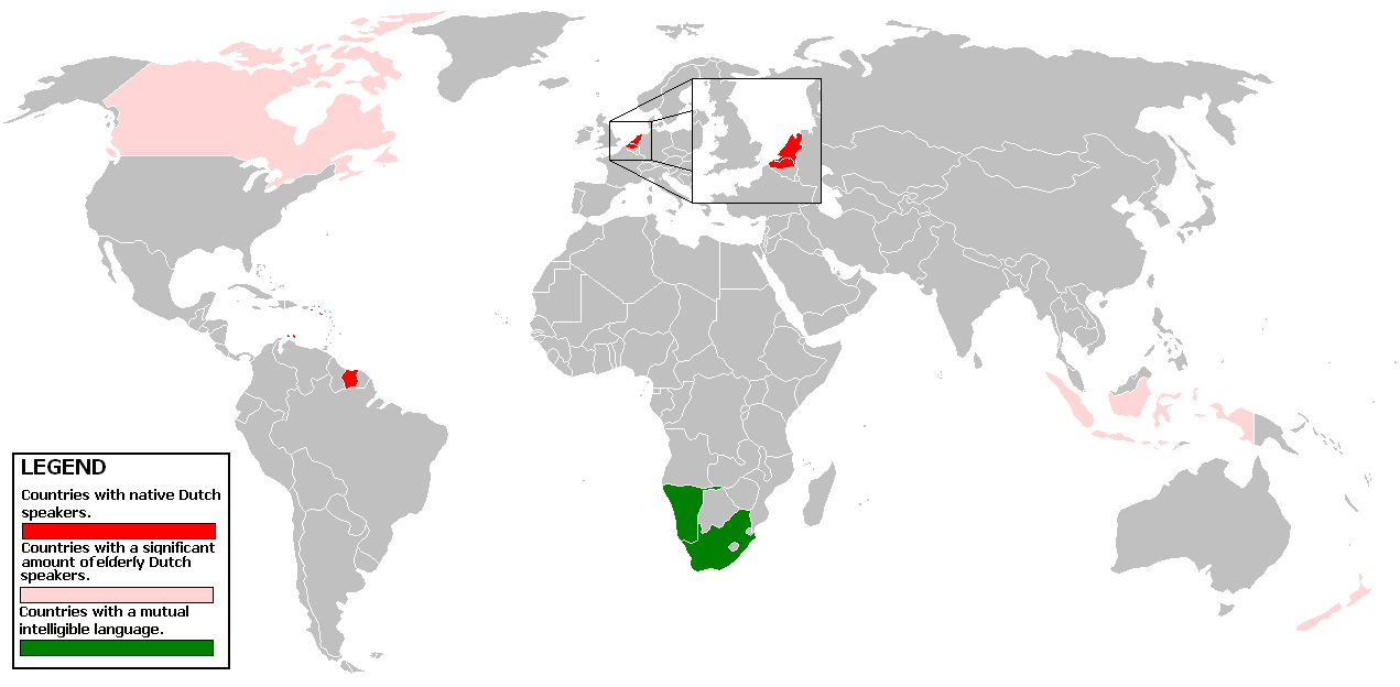 Sander 15:51, 6 May 2006 (UTC)